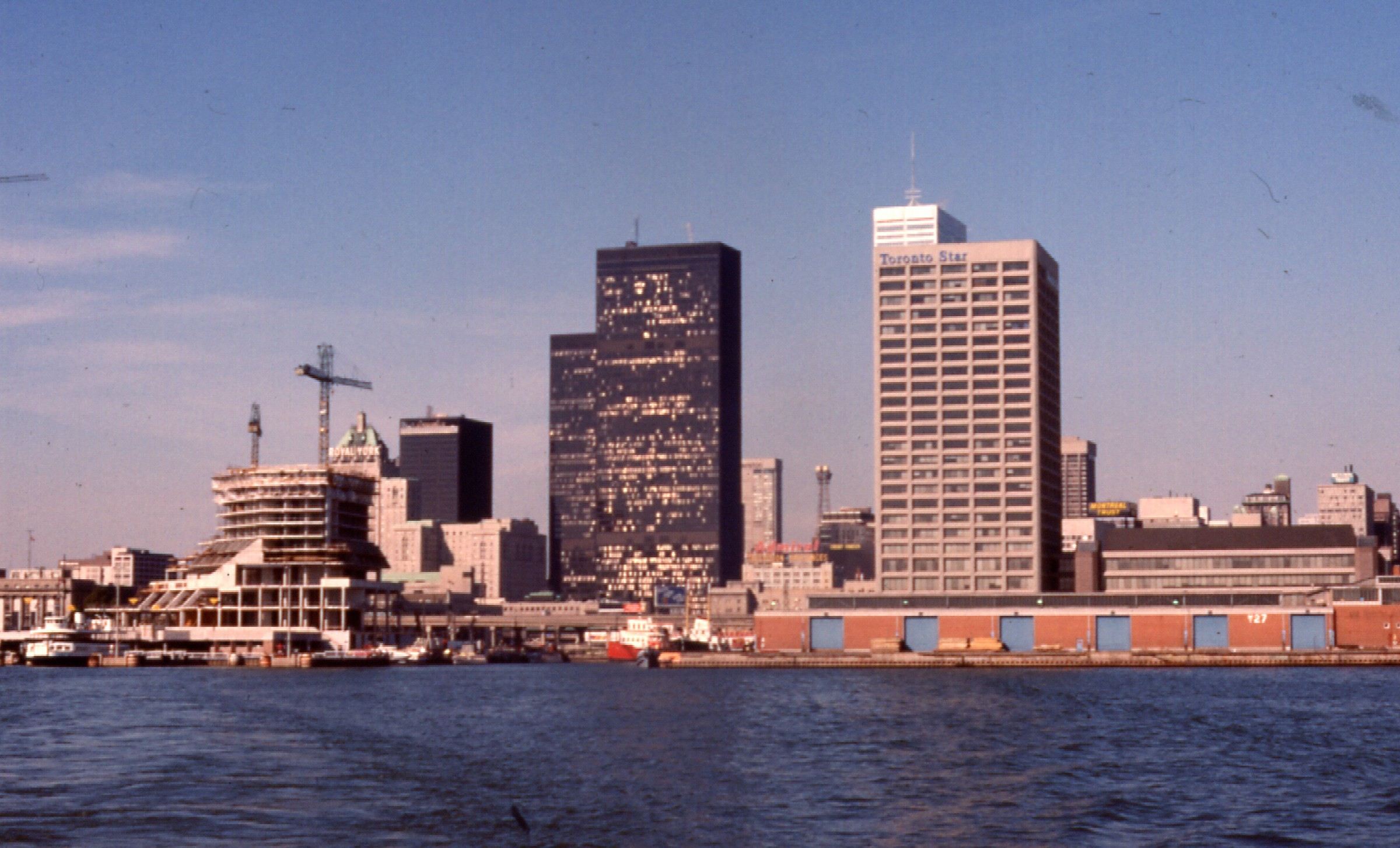 Toronto skyline from the island ferry in 1976